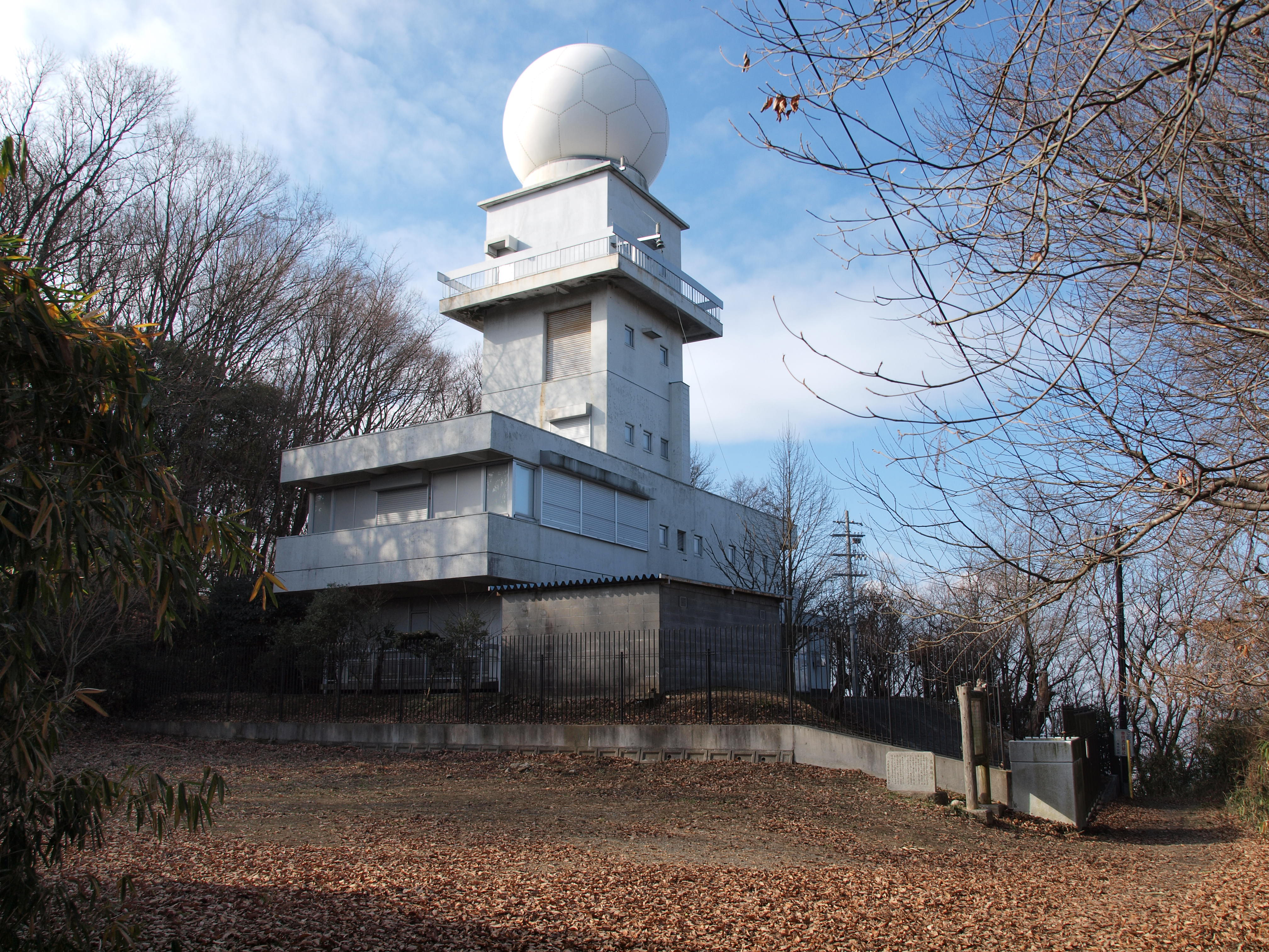 Takayasu-yama Meteorological Radar Observatory in Yao, Osaka